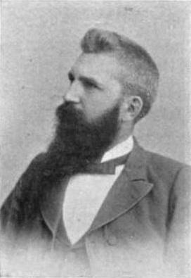 Eugene Jerome Hainer was a Nebraska lawyer and businessman who served in the US House from 1893 to 1897.